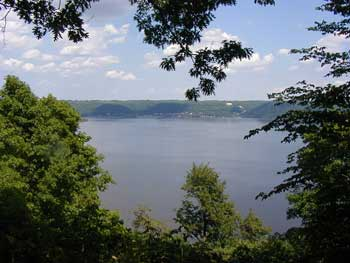 This is a picture taken from the Frontenac State Park, located in Goodhue County, southeast of Red Wing and north of Lake City Frontenac State Park looks over the Mississippi River and onto Lake Pepin. This area is part of the Hiawatha Valley and the Driftless Area.